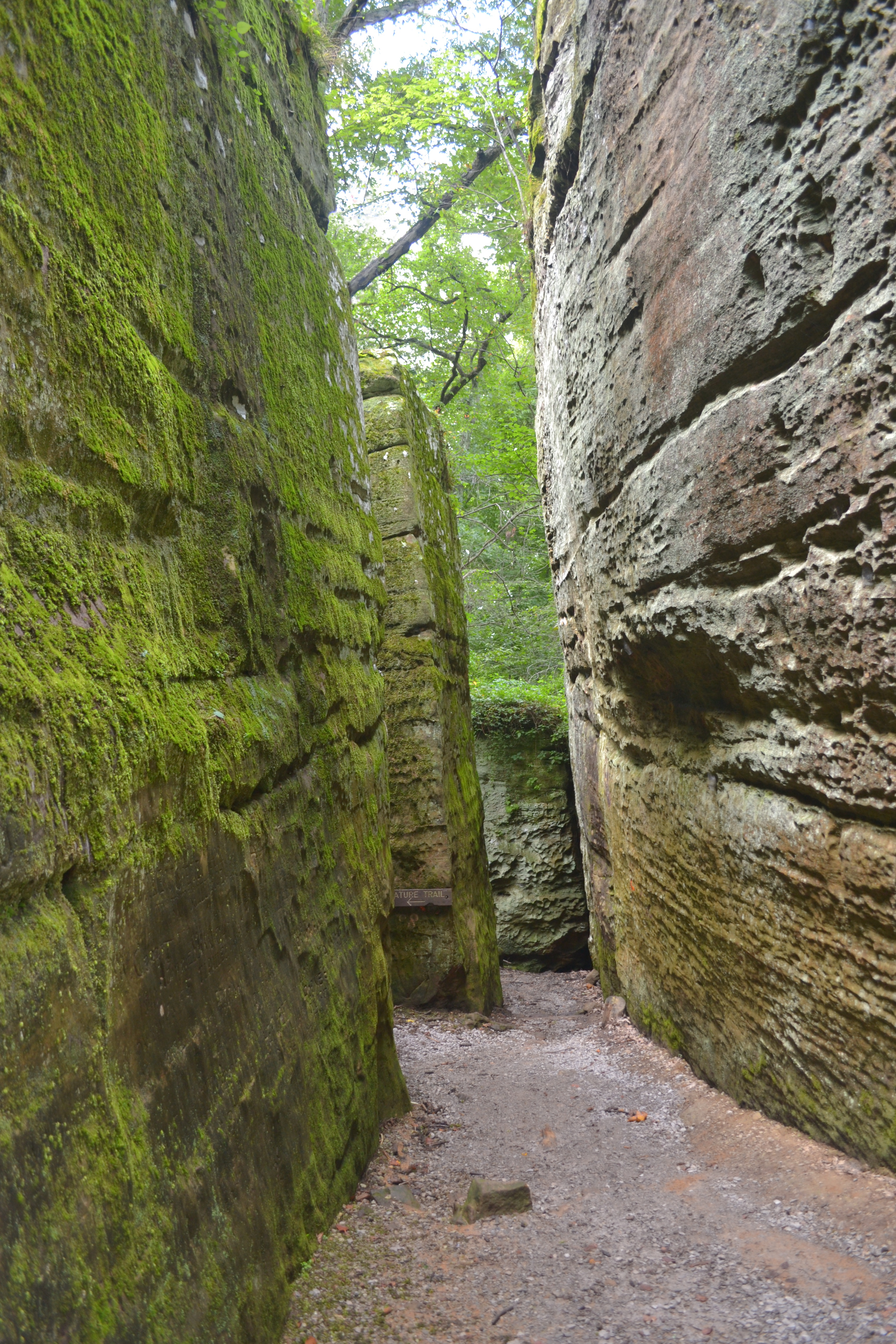 One of the city "streets" on the Giant City Nature Trail in Giant City State Park in Illinois.